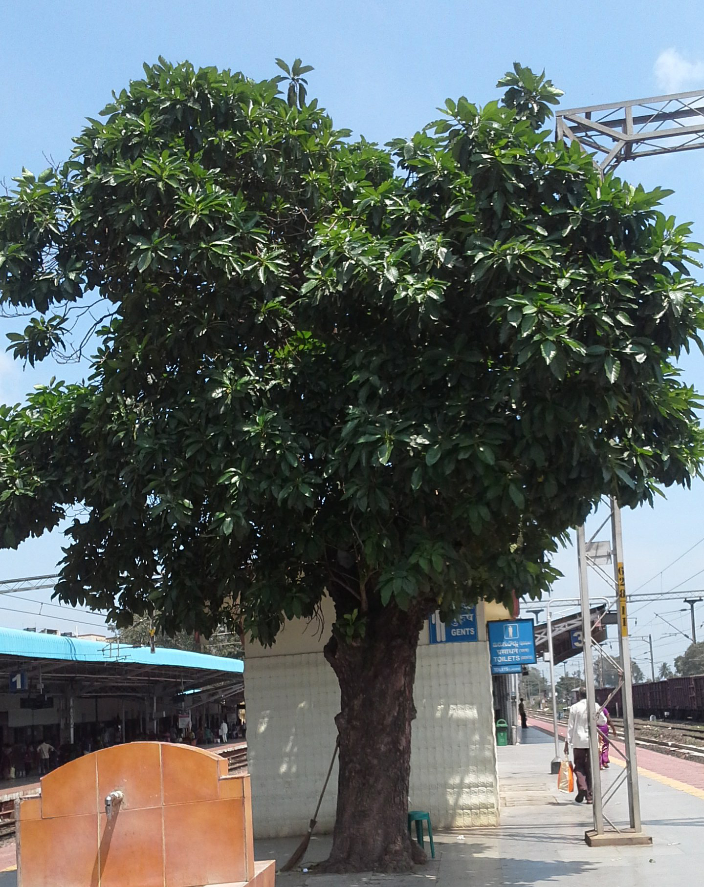 (Morinda tinctoria) Indian mulberry tree at Samalkot railway station